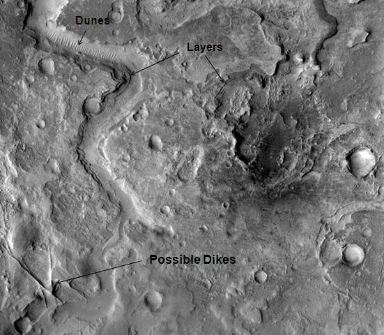 Huo Hsing Vallis in Syrtis Major. Location is 27.8 degrees north latitude and 293 degrees west longitude. Shows dikes, layers, and dunes.